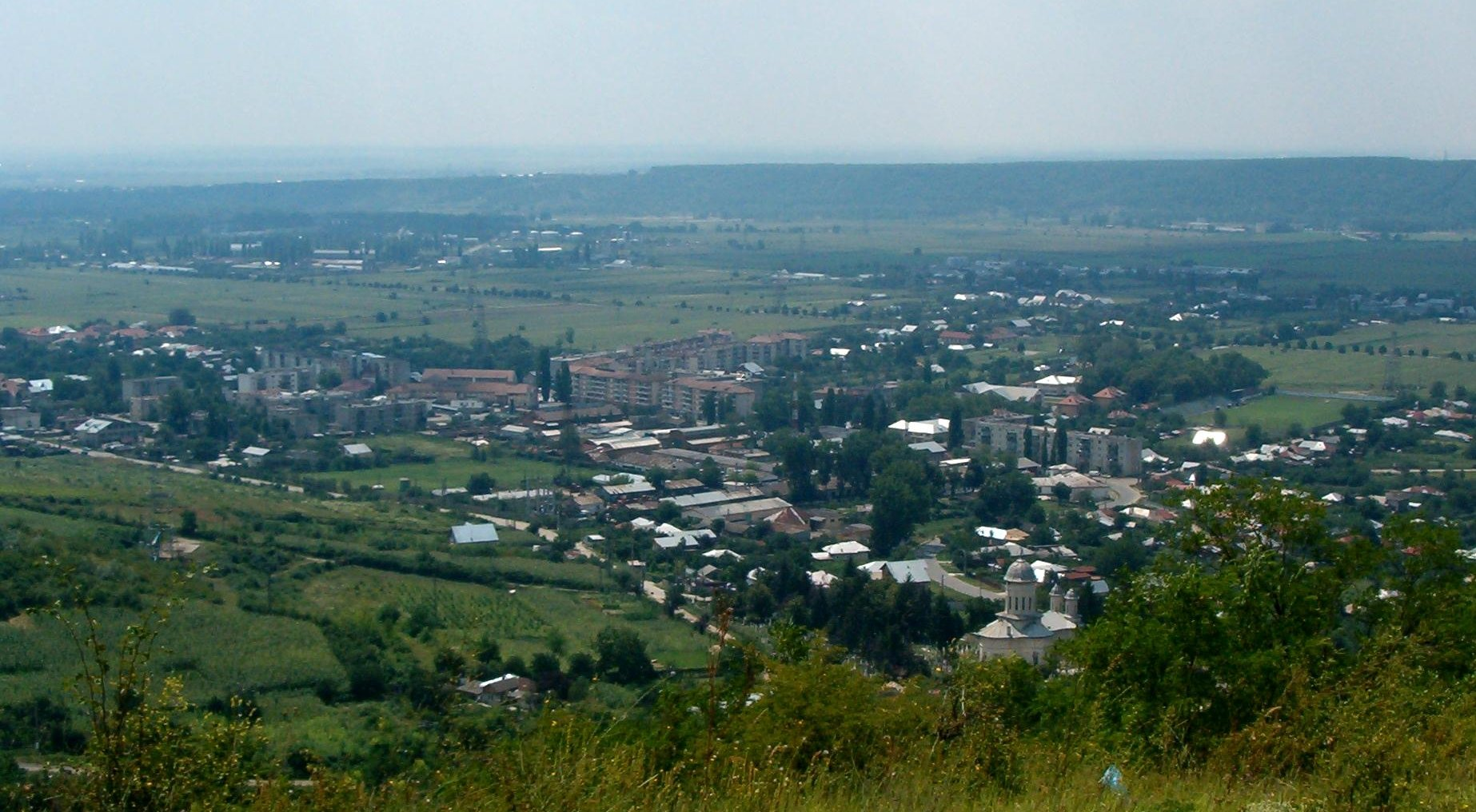 View of the town center of Boldeşti-Scăeni, Prahova, Romania